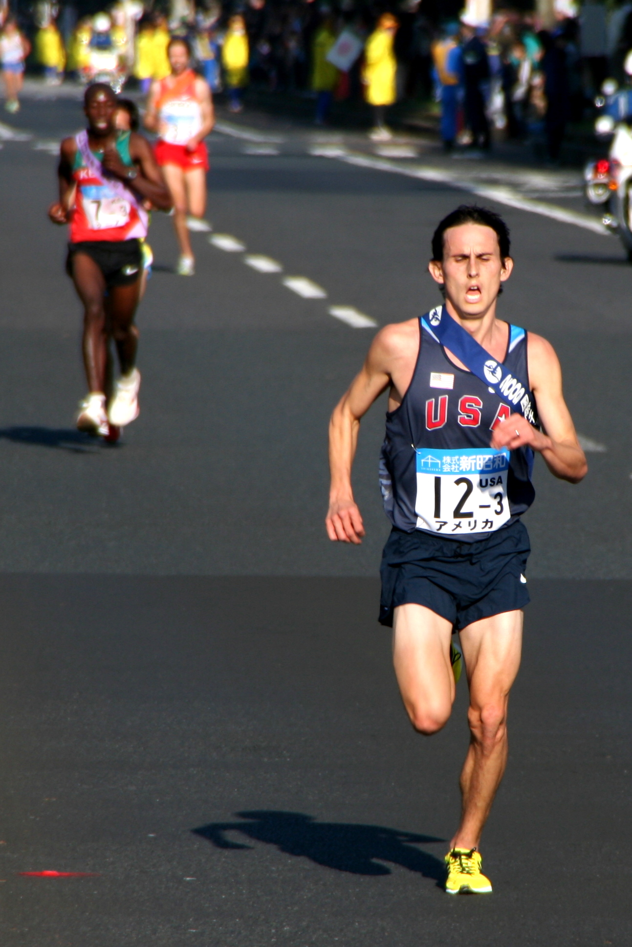 4th: BURRELL, Ian (USA)